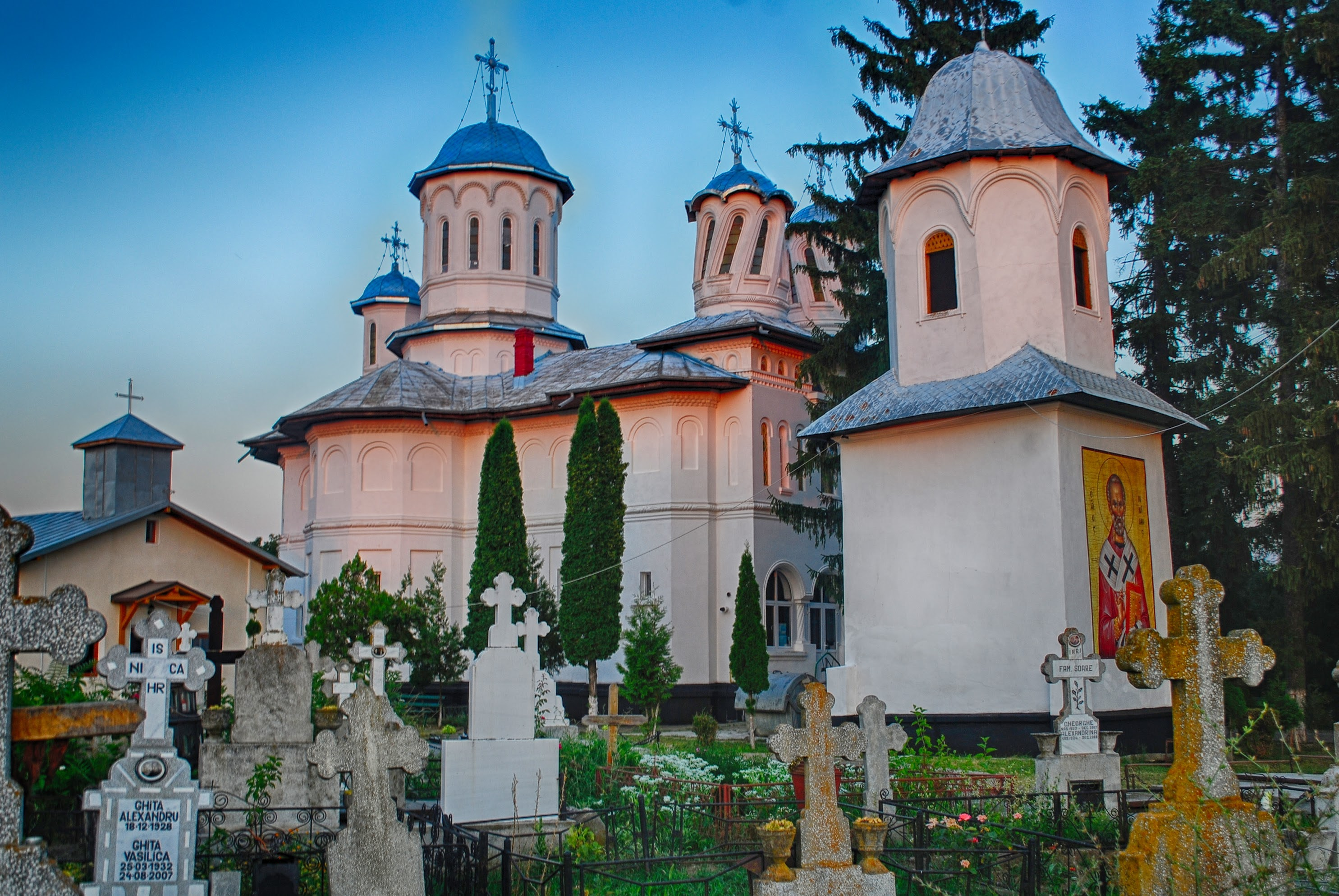 Archangels' church in Lipia, Gruiu commune, Ilfov County, RomaniaRomână: Biserica „Sfinții Voievozi” din Lipia, comuna Gruiu, județul Ilfov, România